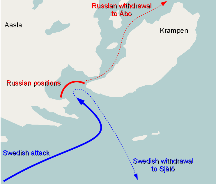 Map showing the main actions and movements related to battle of Rimoto Kramp in 1808